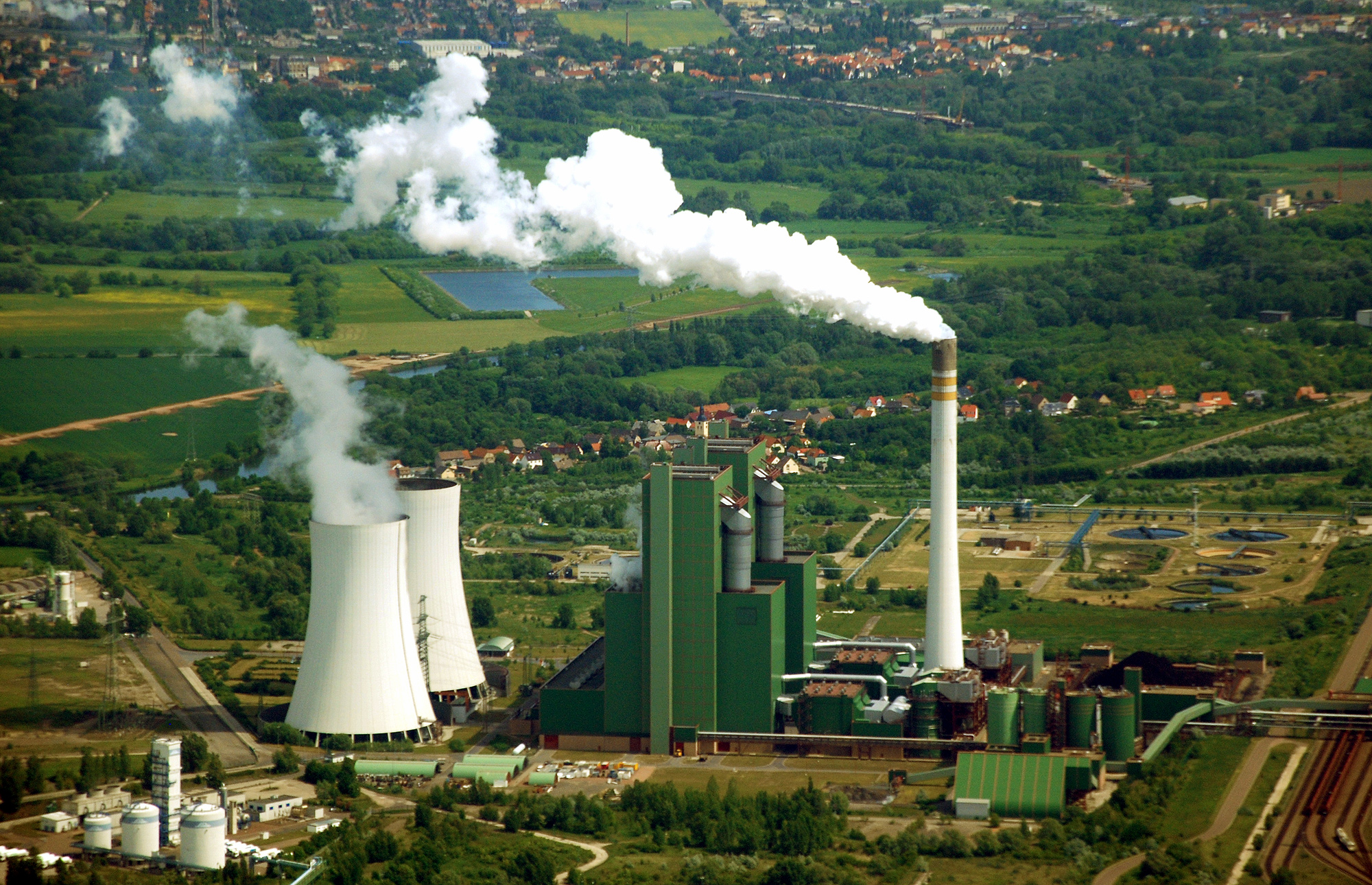 lignite-fired power plant Schkopau